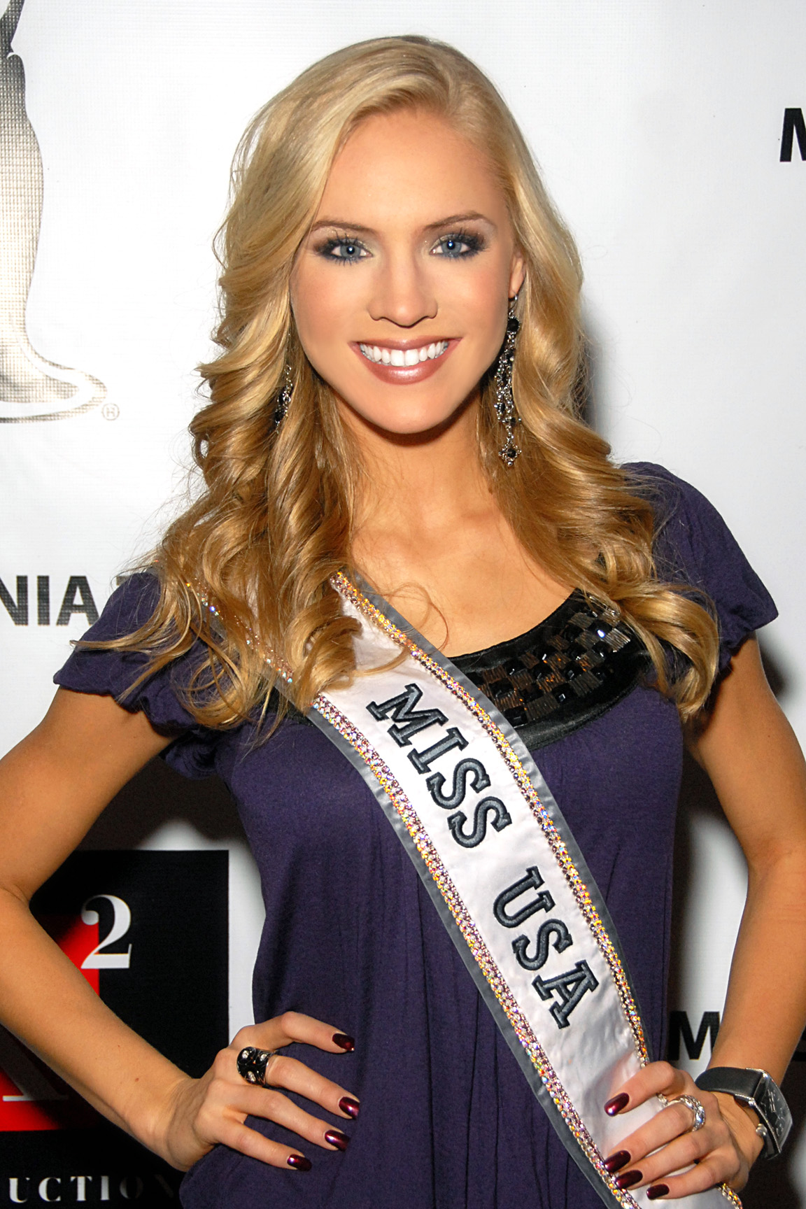 Miss USA 2009, Kristen Dalton, attending the "Beauty of California Dinner" at The Riviera Resort & Spa, Palm Springs, CA on Nov. 21, 2009